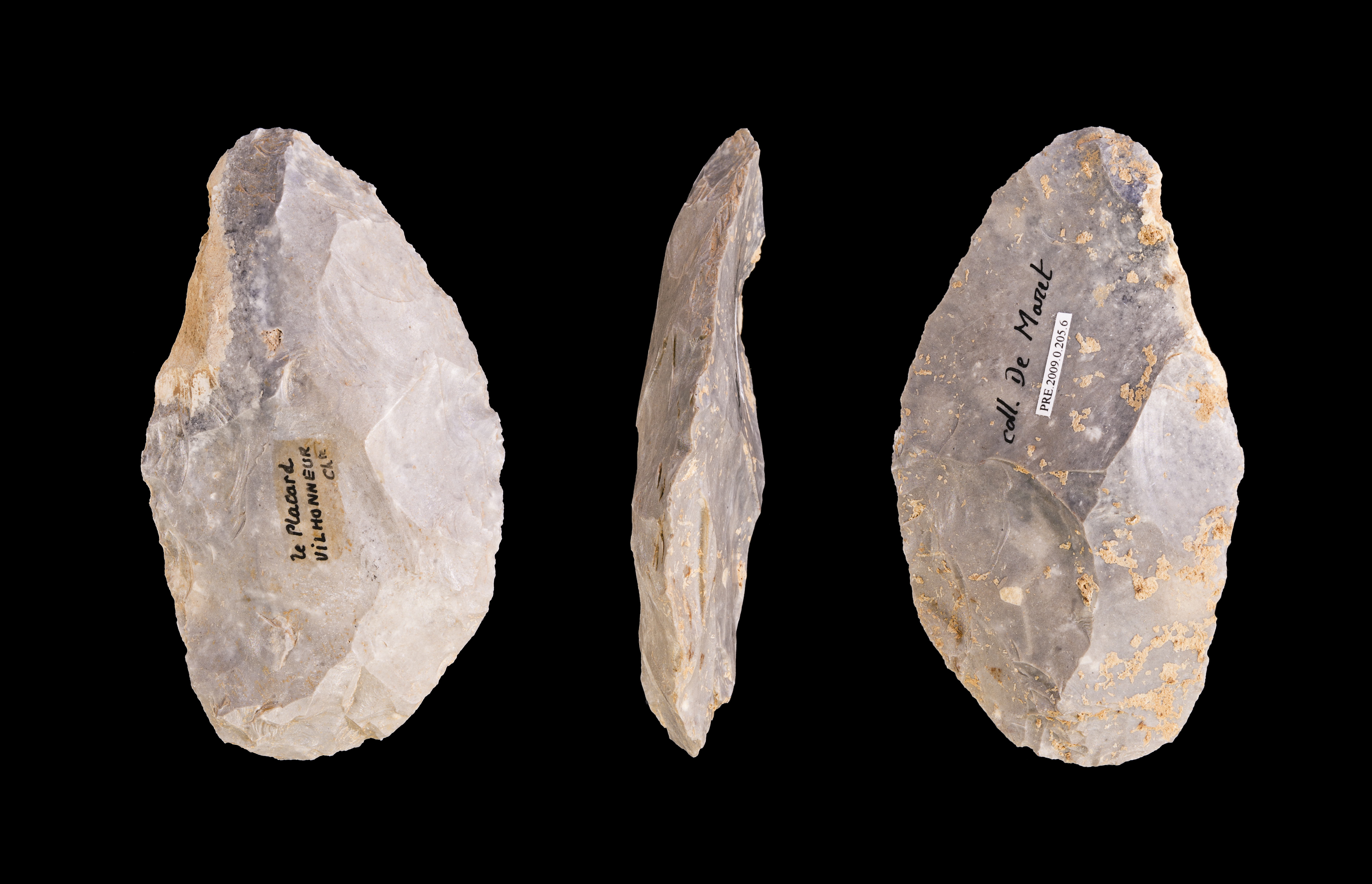 Racloir - Different views of the same specimen.